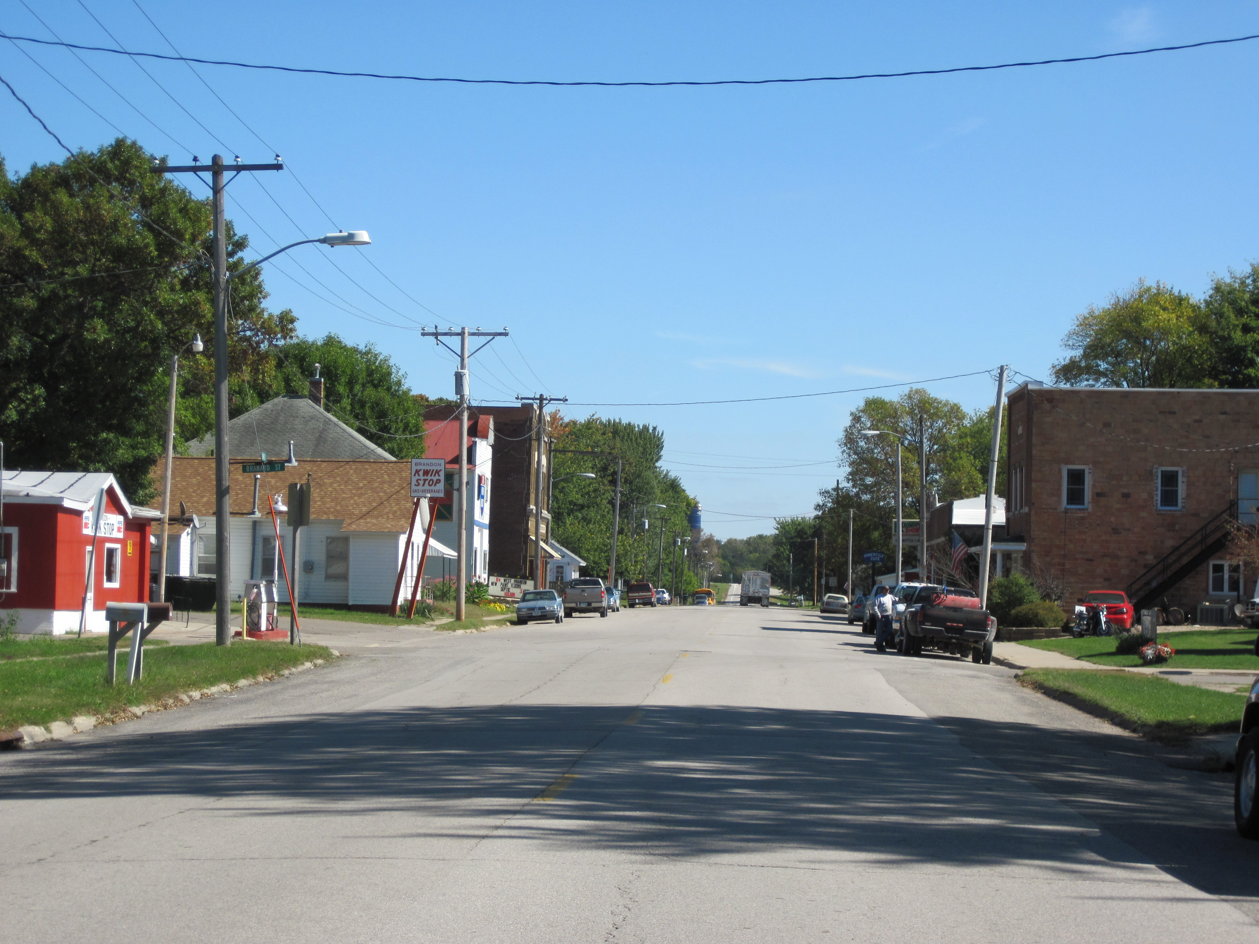 Brandon Bill Whittaker| (talk|) 12:47, 2 October 2009 (UTC) Summary Brandon Bill Whittaker (talk) 12:47, 2 October 2009 (UTC)